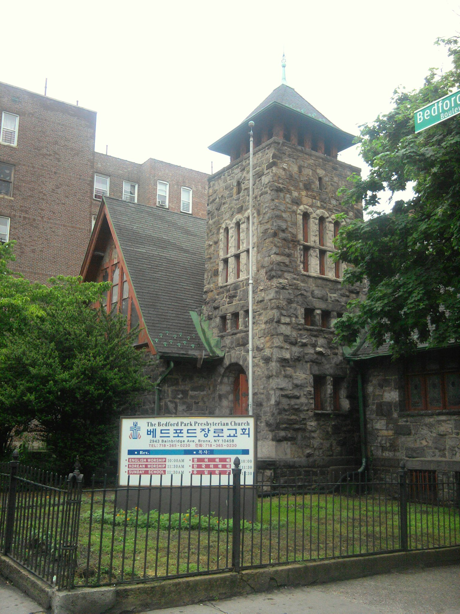 Looking north from Bainbridge Avenue at Bedford Park Presbyterian Church on a rainy afternoon.